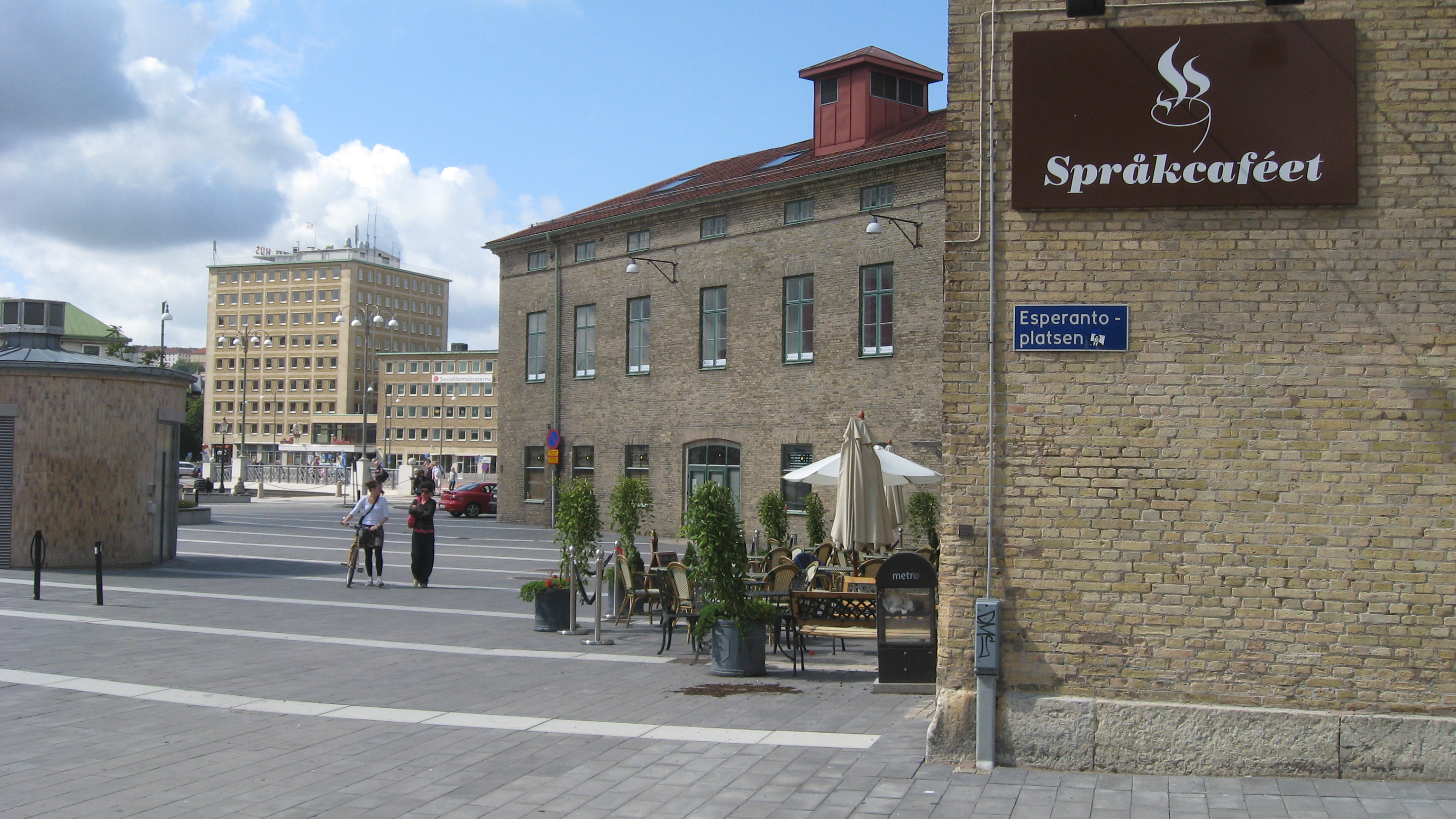 Gothenburg (Göteborg), Sweden, The Language Cafe (Språkcafeet) on the Esperanto Square